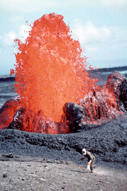 An Eruptive Situation — shot taken in 1993 at Kilauea volcano in Hawaii. In this shot, we see a geologist collecting spatter samples while fountains erupt southwest of the episode 53 vent at the base of Pu‘u ‘O‘o. The vent began to erupt on February 20 (beginning of episode 53), producing 1–4m high fountains that increased in height to 15m by the 21st. Photo credit: C.C. Heliker, USGS). You can find more photos from Kilauea eruptions in the HVO archive at